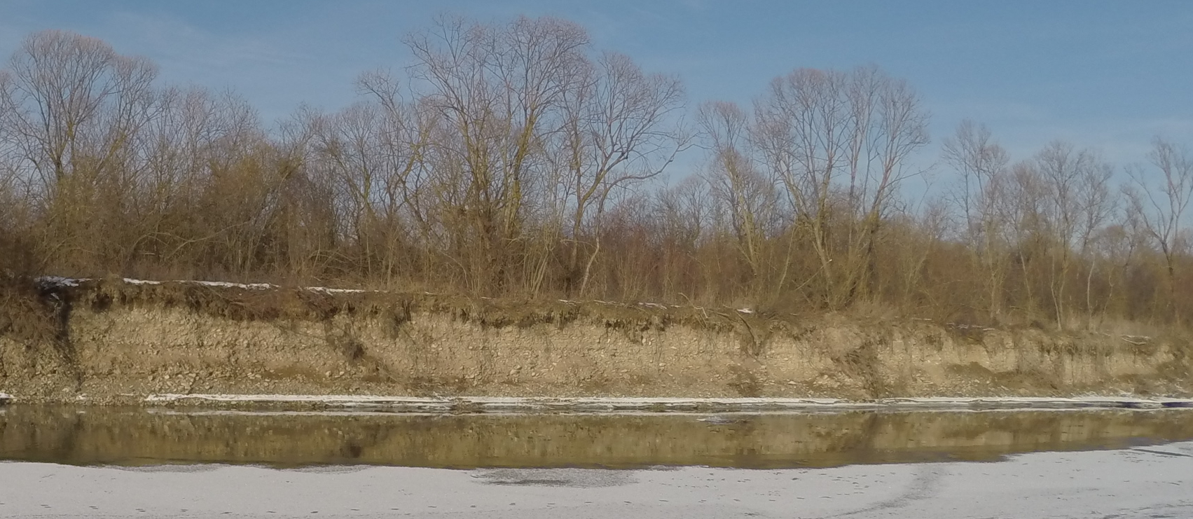 Outcrop of Miocene conglomerates in the cut bank of the Bystrytsya Solotvynska river, northwest of the village of Drahomyrchany, Carpathian foreland basin, Ivano-Frankivsk oblast, western Ukraine. The pebbles in the conglomerate largely consist of laminated sandstone. They are derived from the sandstone beds within the flysch successions that form the bedrock in the Outer Carpathians further to the southwest. These pebbles weather out of the scarp and form the river bed and the point bars at the opposite bank of the river because they are too large and heavy to be transported by the river.